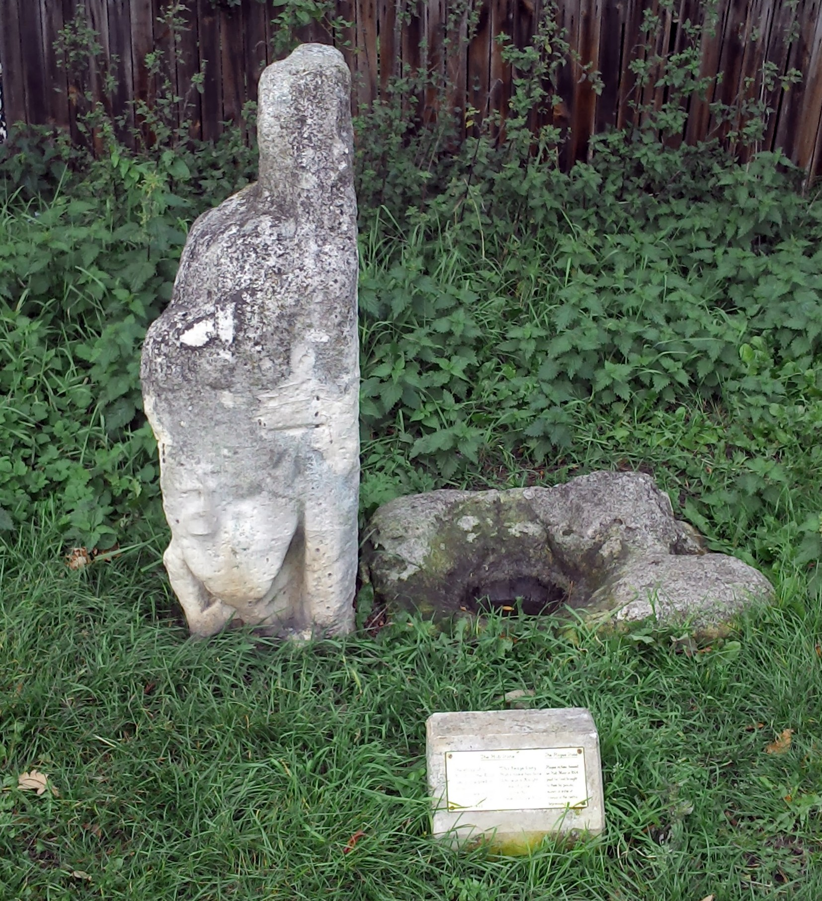 This shows the Hob Stone and the plague stone together.The hollow in the stone was filled with water or vinegar which was meant to disinfect the coins brought by plague victims to pay for some food.